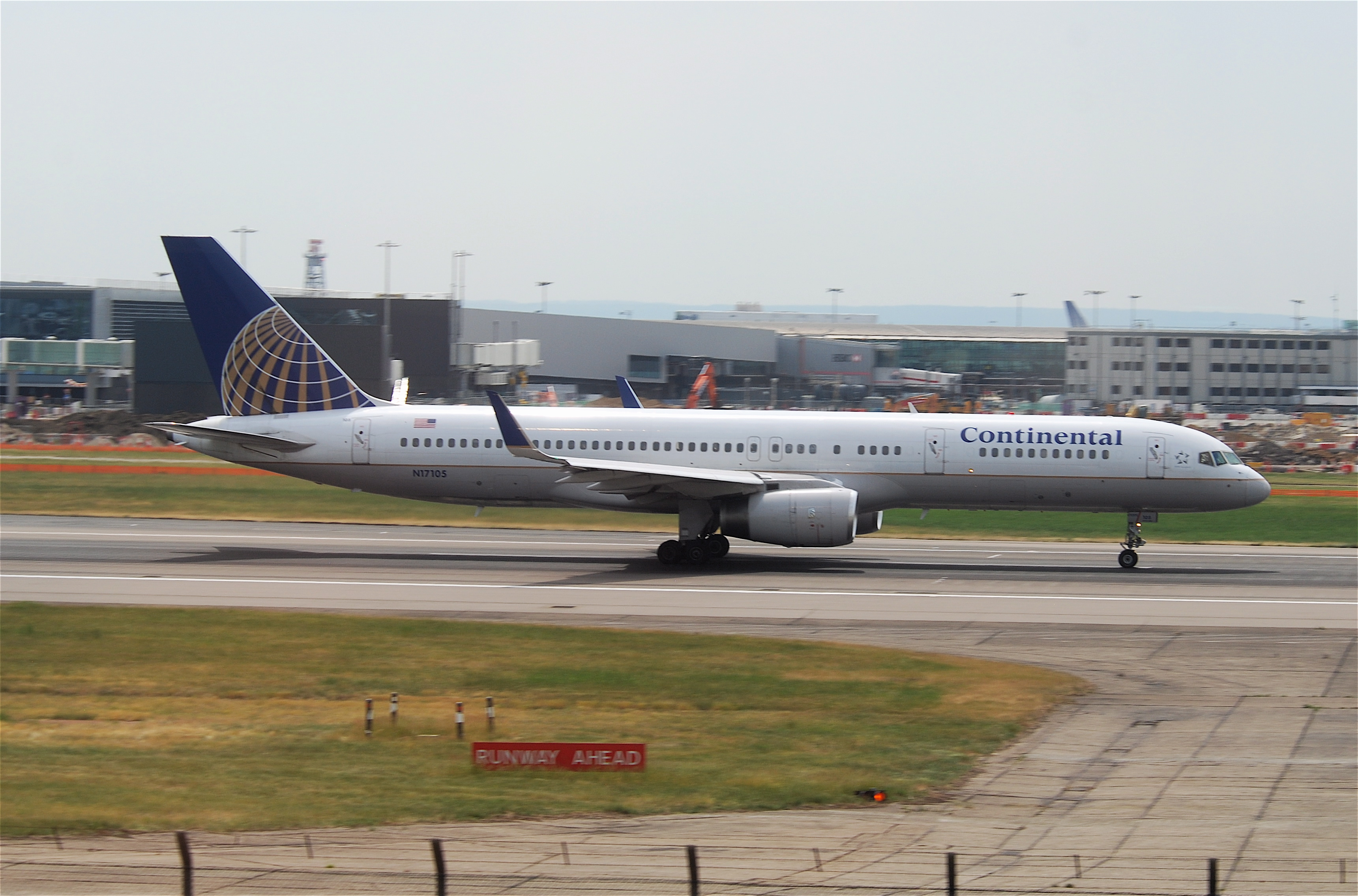 First flight: July 29, 1994...(c/n 27295/ 632) 18/08/1994 Continental Airlines N17105 24/12/2010 United Airlines N17105